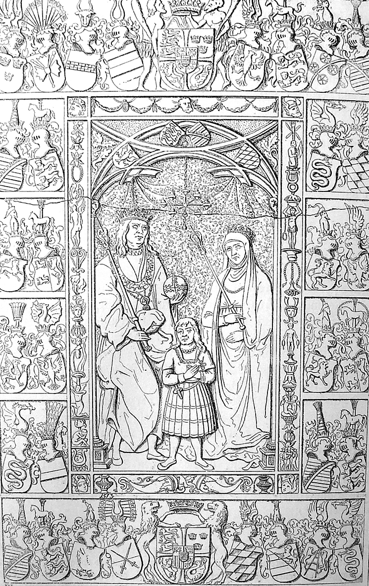 King John, Prince Francis and Queen Christina or Denmark, Norway and Sweden